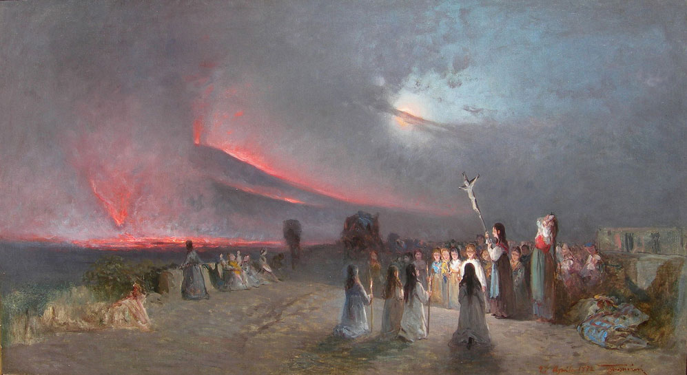 Ash Rain during the Eruption of Vesuvius on April 27th in 1872 by Francesco Lord Mancini, oil on canvas, 66 x 118 cm